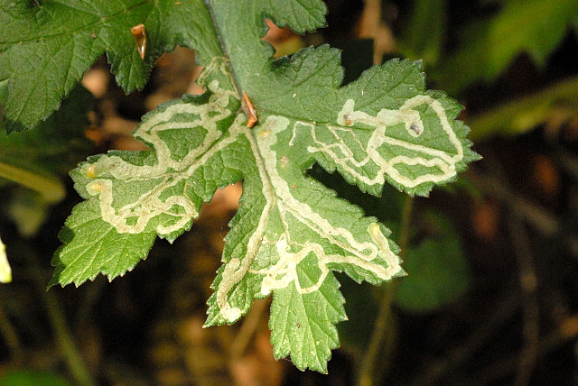 Phytomyza spondylii from Commanster, Belgian High Ardennes .